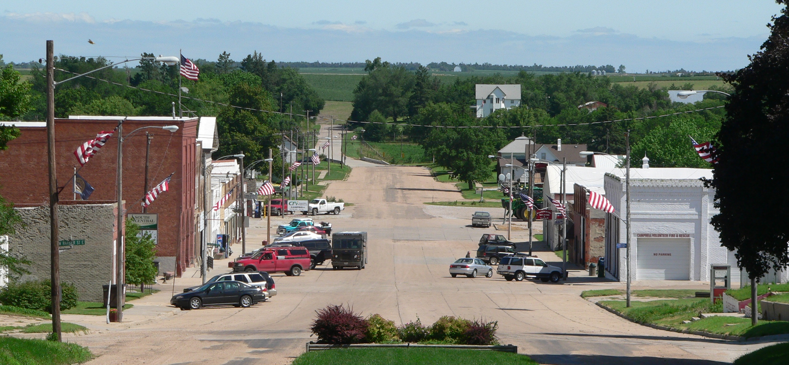 Downtown Campbell, Nebraska: Broad Street, looking north from about Barker Street.